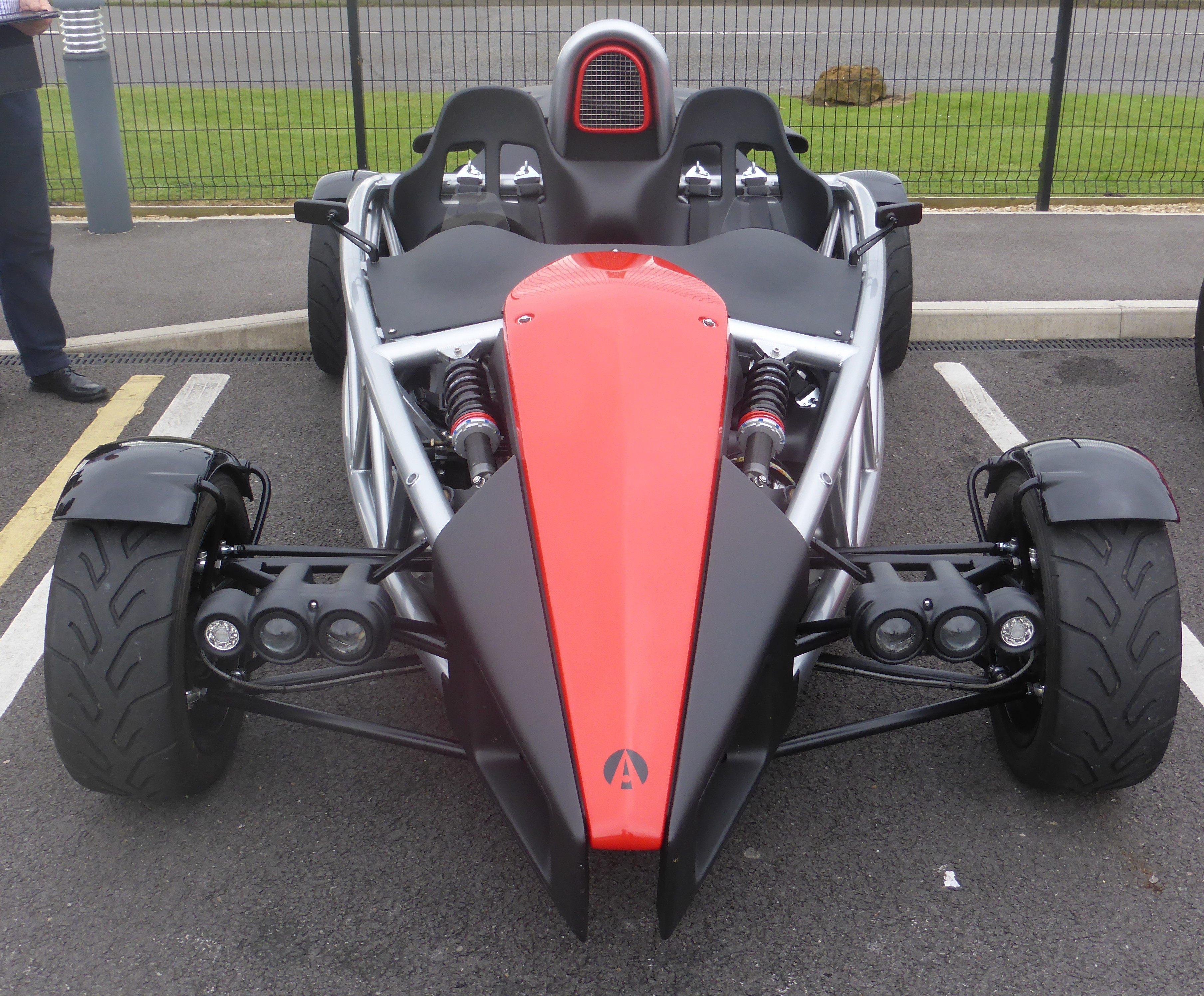 Haynes International Motor Museum Breakfast Club